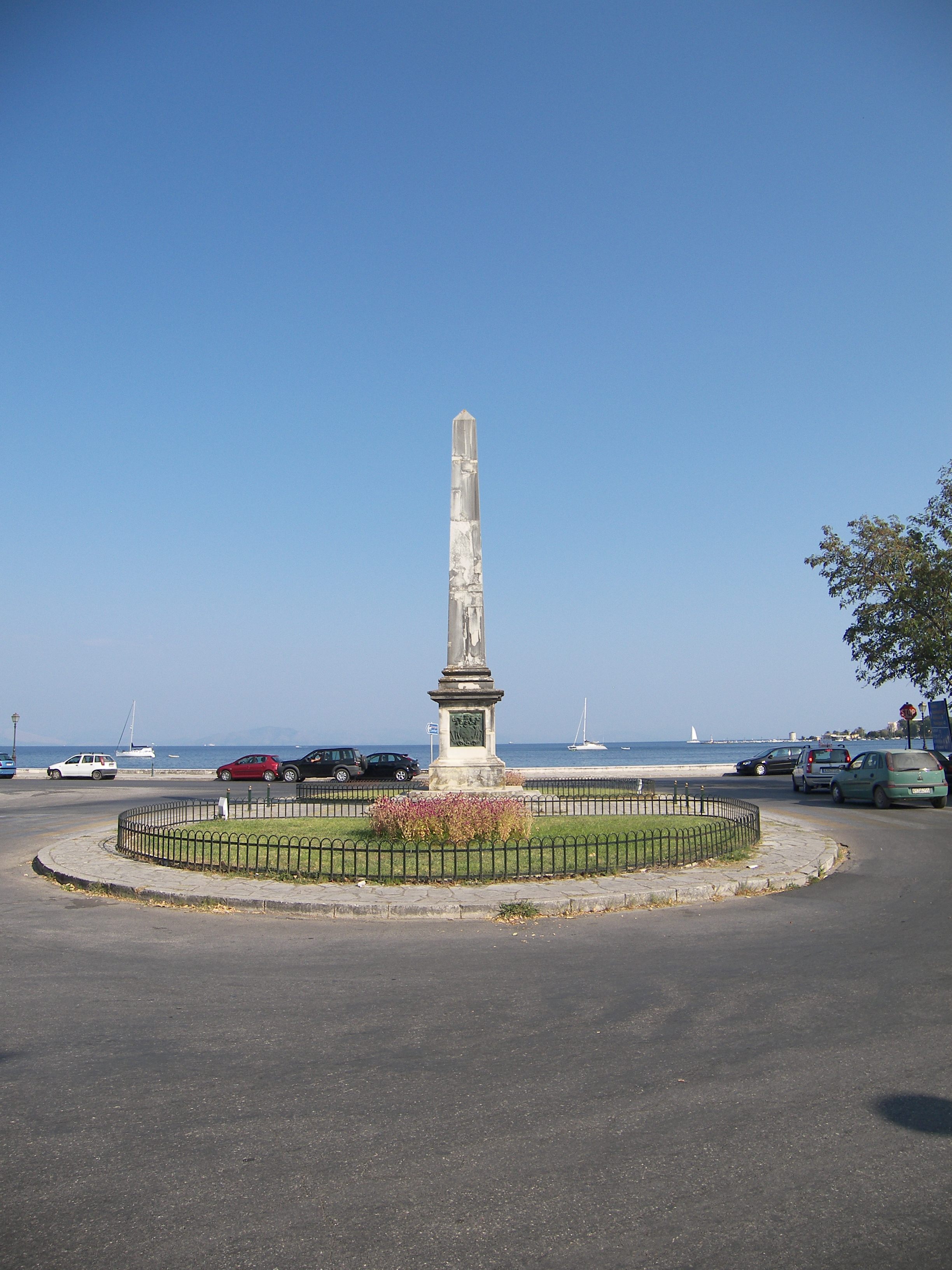 Filename